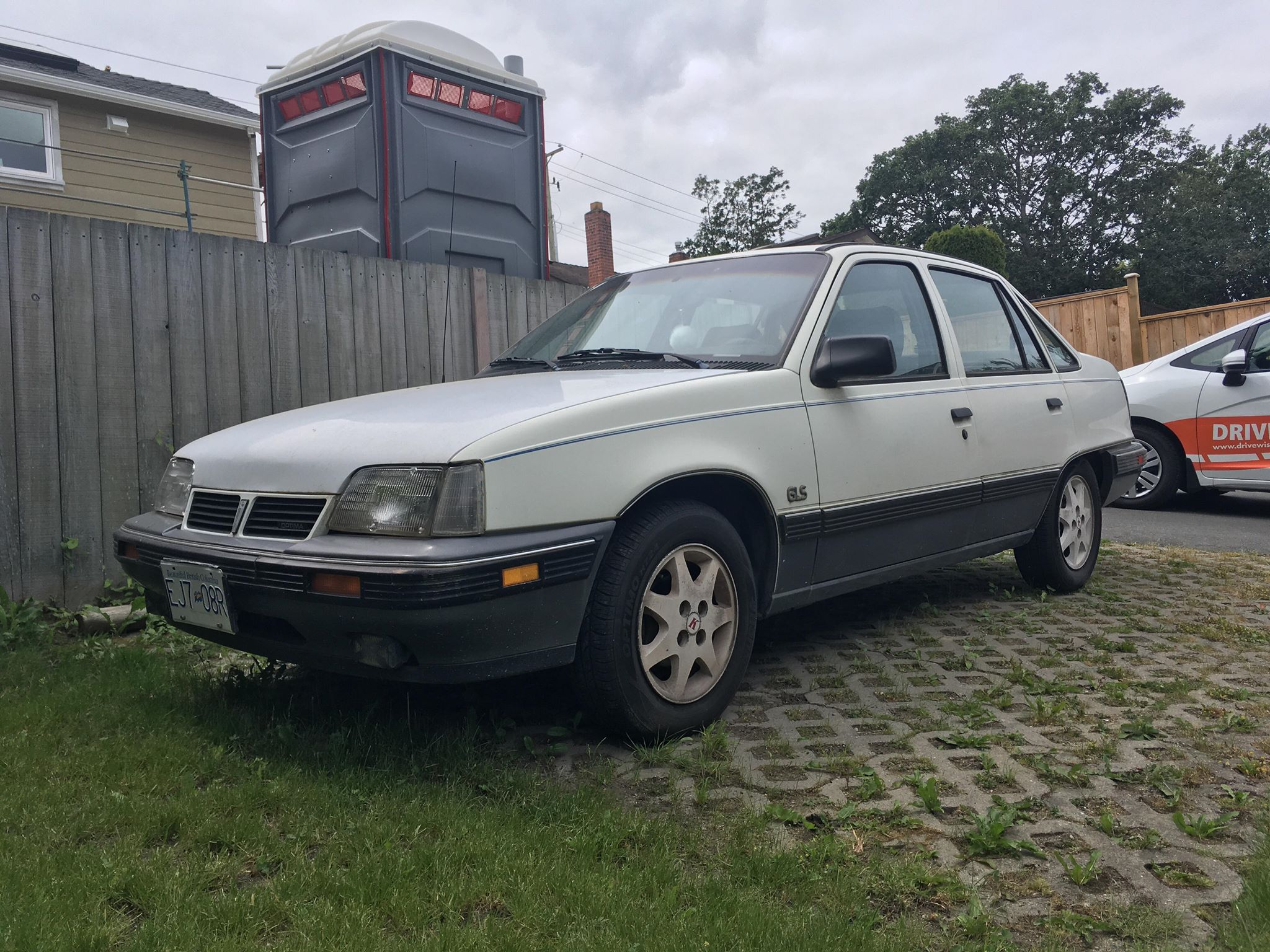 A Canadian only version of a Daewoo car sold as the Passport Optima